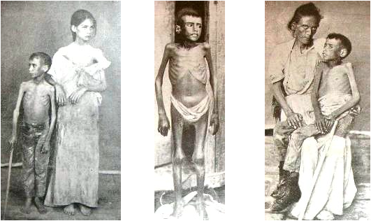 Víctimas de la Reconcentración de Weyler. 1896.